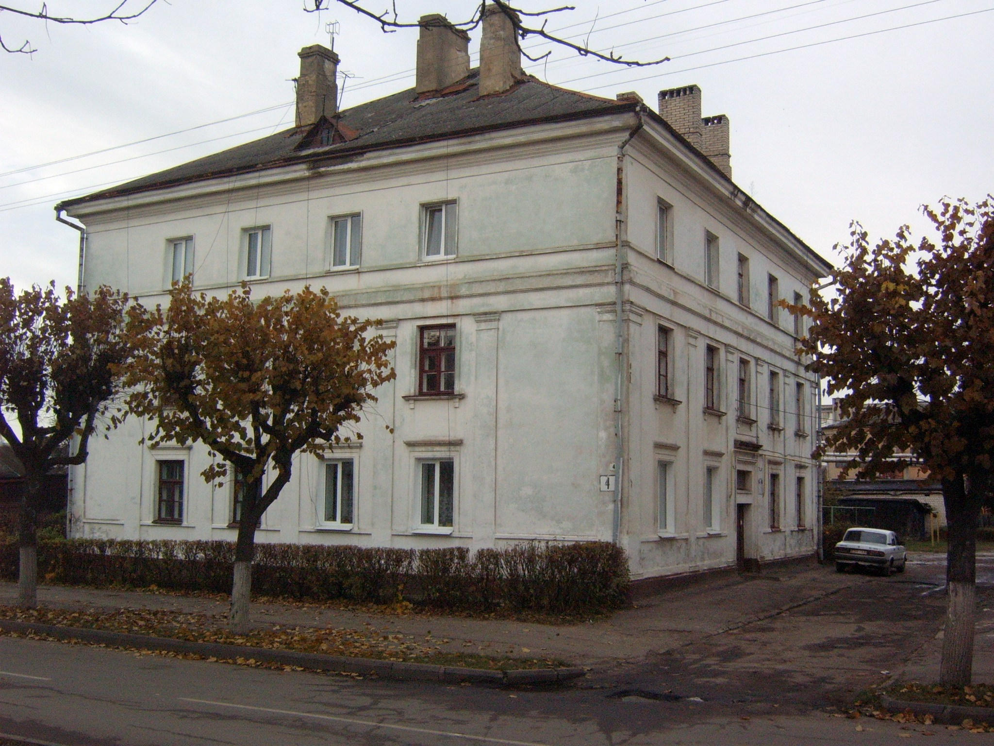 The former synagogue in Baranavichy